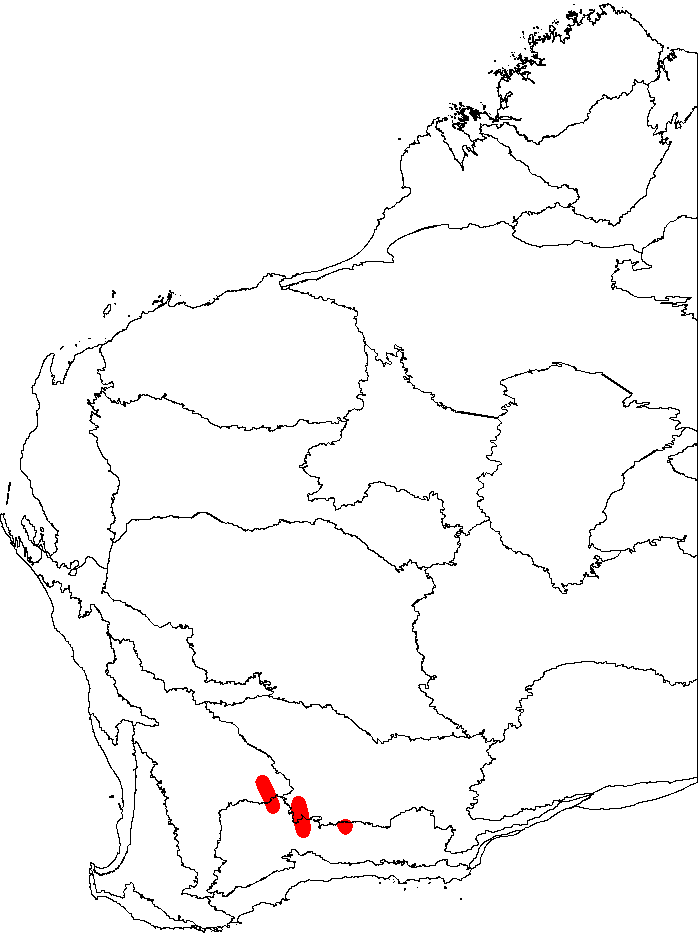 This is a map of Western Australia, showing the distribution of Banksia sphaerocarpa var. dolichostyla superimposed on a background of the IBRA 6.1 biogeographic regions.